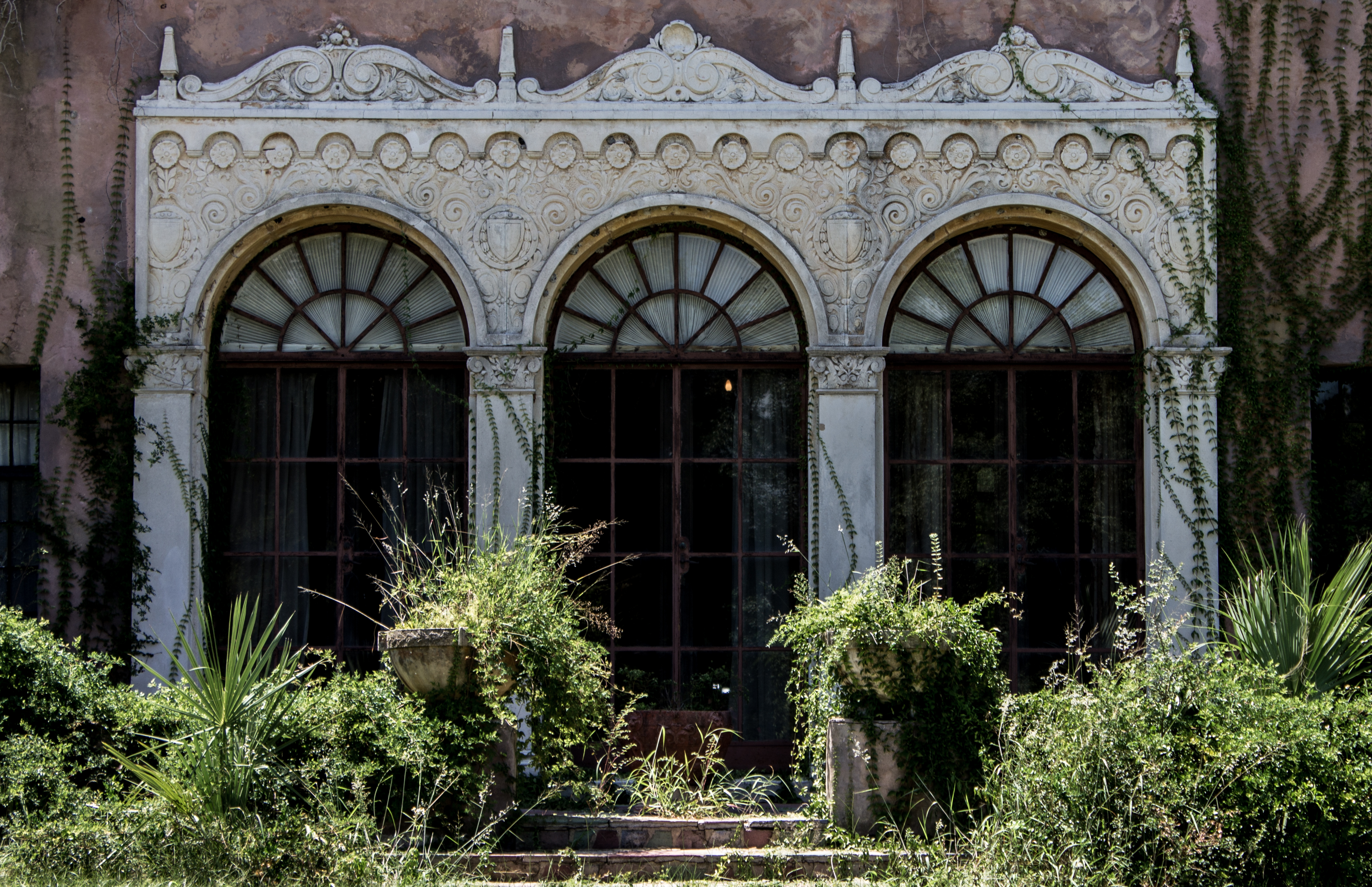 Looking at the outer ballroom doors of the Howey House